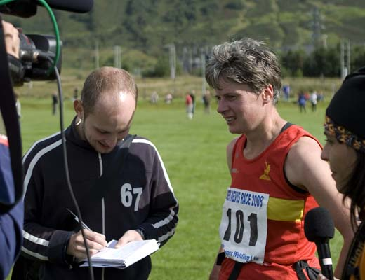 Angela Mudge being interviewed after winning the 2008 Ben Nevis Race (women), part of the Skyrunner World Series